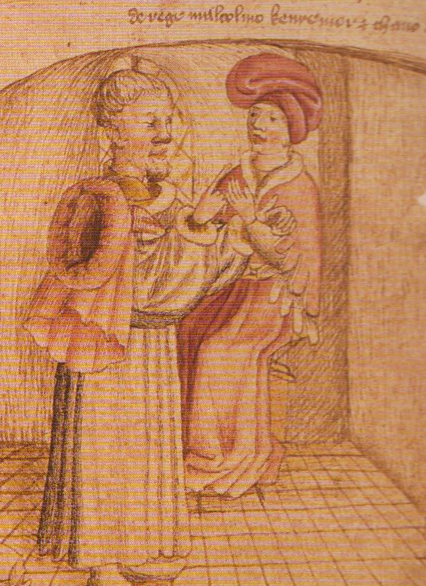 Image of Máel Coluim III of Scotland with a rather feminine looking Mac Duib (Macduff).